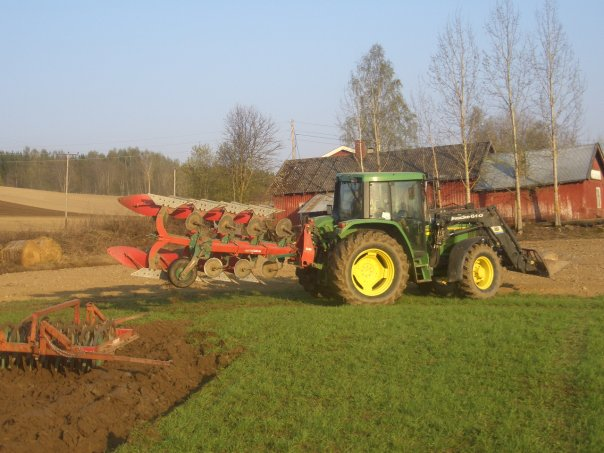 A Kverneland reversible plough on a John Deere 6200; a packer in the foreground (left)